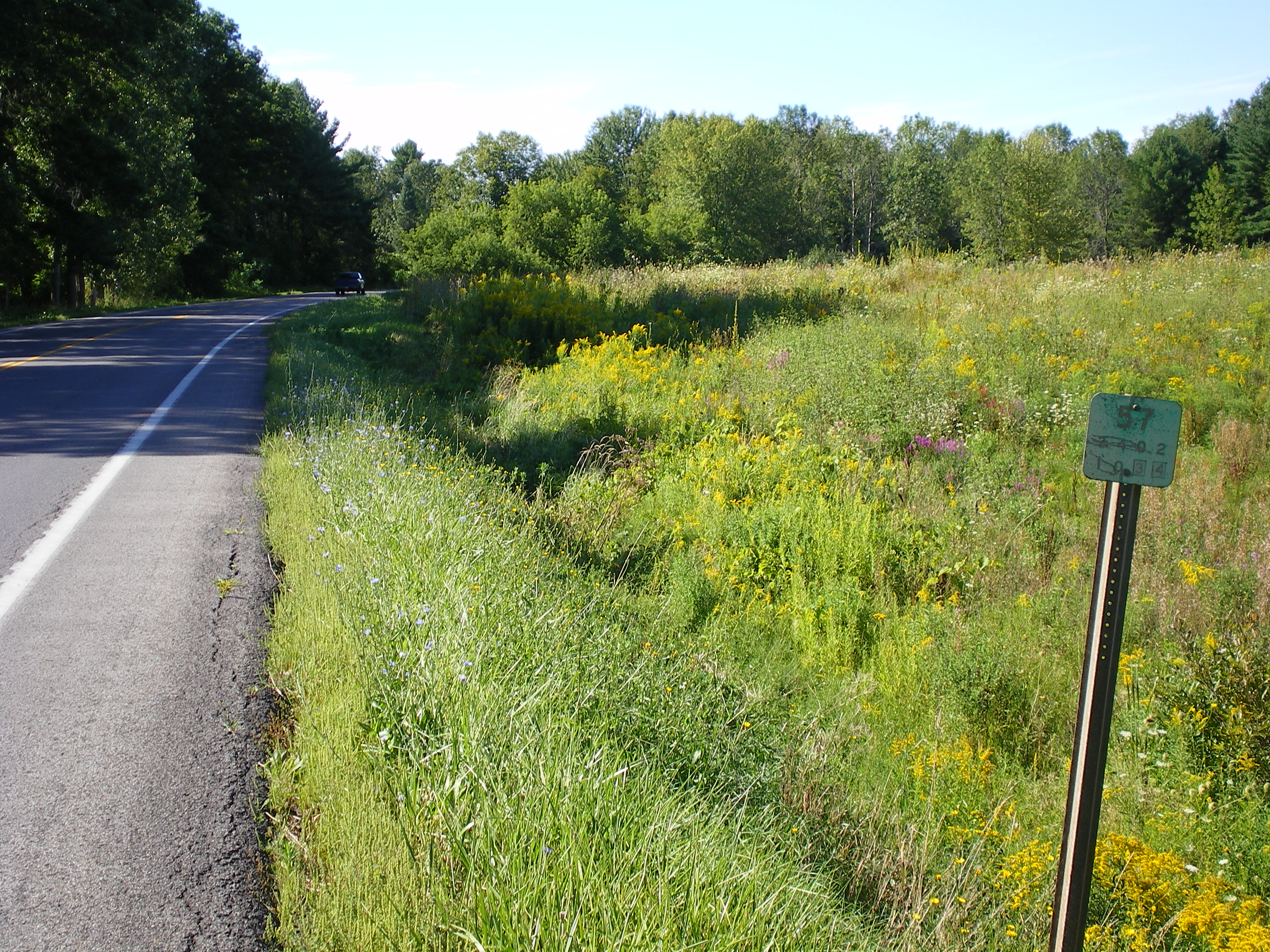 Reference marker for New York State Route 57 along its former routing (now Oswego County's County Route 57) north of Phoenix. Note that the last two digits in the third row have been patched, possibly reflecting a change in mileage along the route.